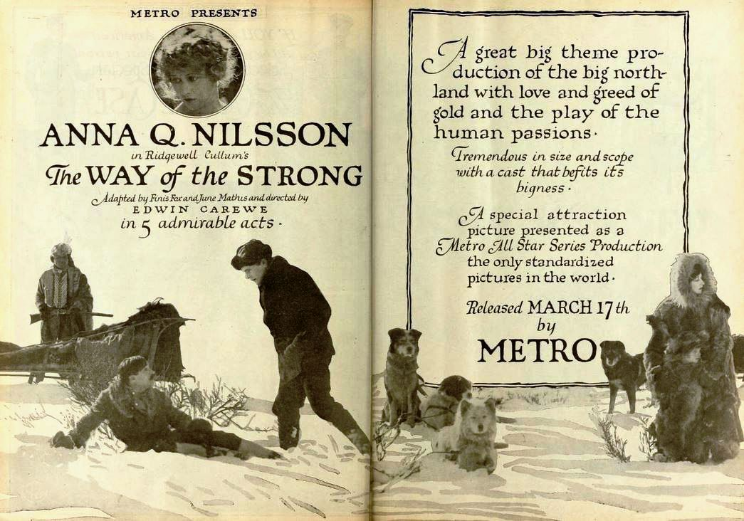 Ad for the American film Way of the Strong (1919) with Anna Q. Nilsson, Joe King, and Harry Northrup, on pages 1560 and 1561 of the March 22, 1919 Moving Picture World.